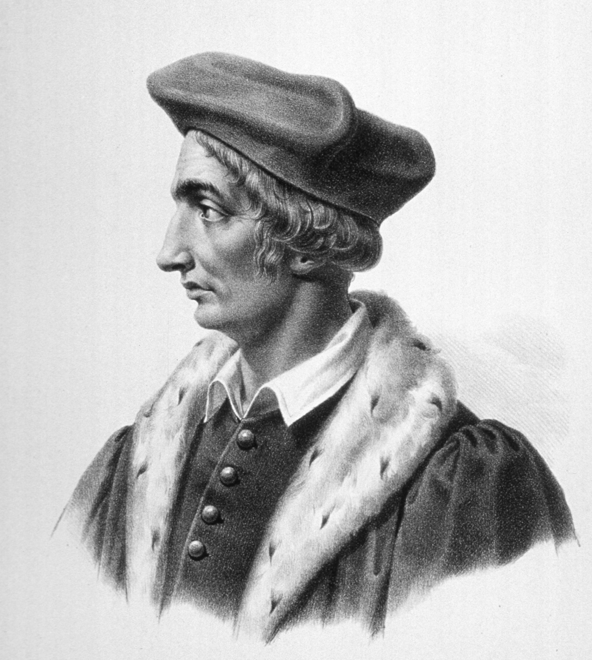 Jean Fernel, French physician, astronomer, and mathematician